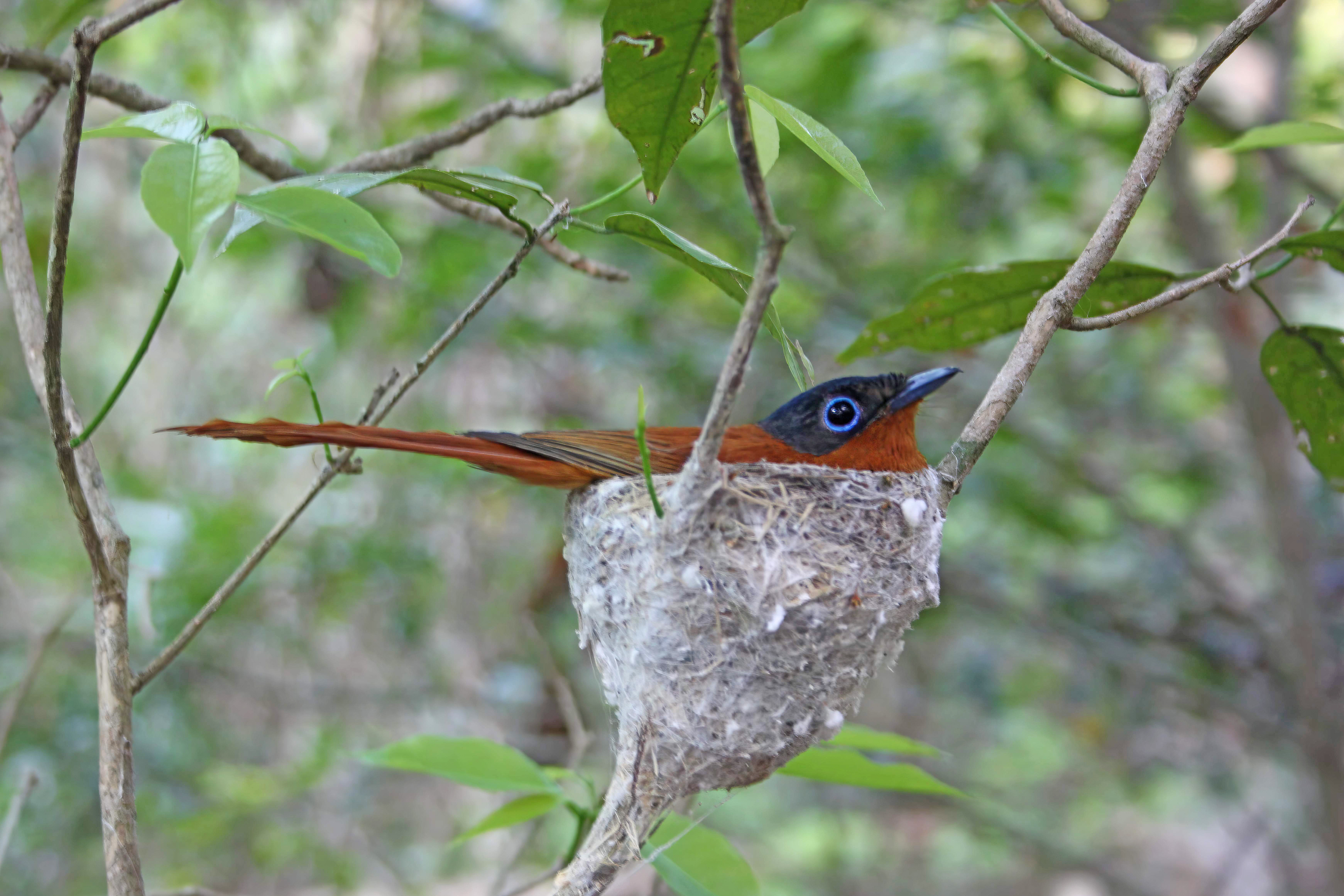 Madagascar paradise flycatcher rufous phase (Terpsiphone mutata), female, Anjajavy Forest, Madagascar. With the small eye-ring, this appears to be a Comoro Islands sub-species.